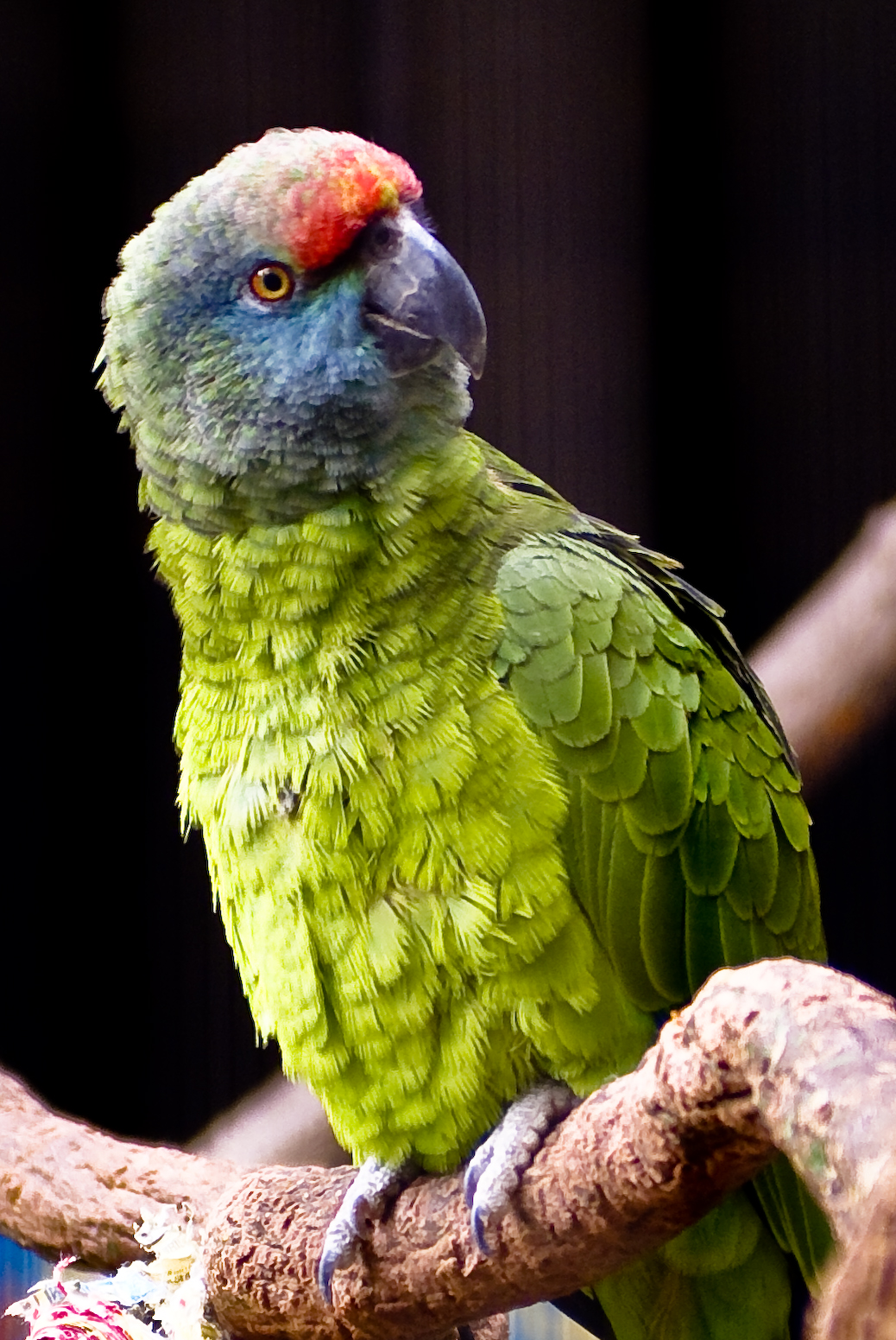 A Festive Amazon at Tulsa Zoo, USA. This subspecies is known as Bodinus' Amazon.